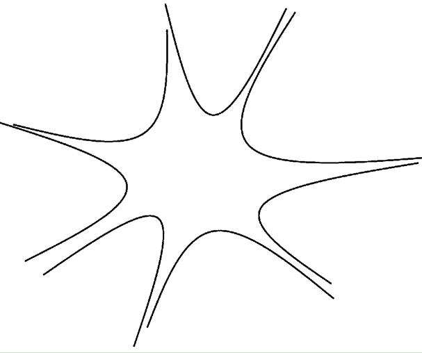 جسم محدب با ابعاد بالا